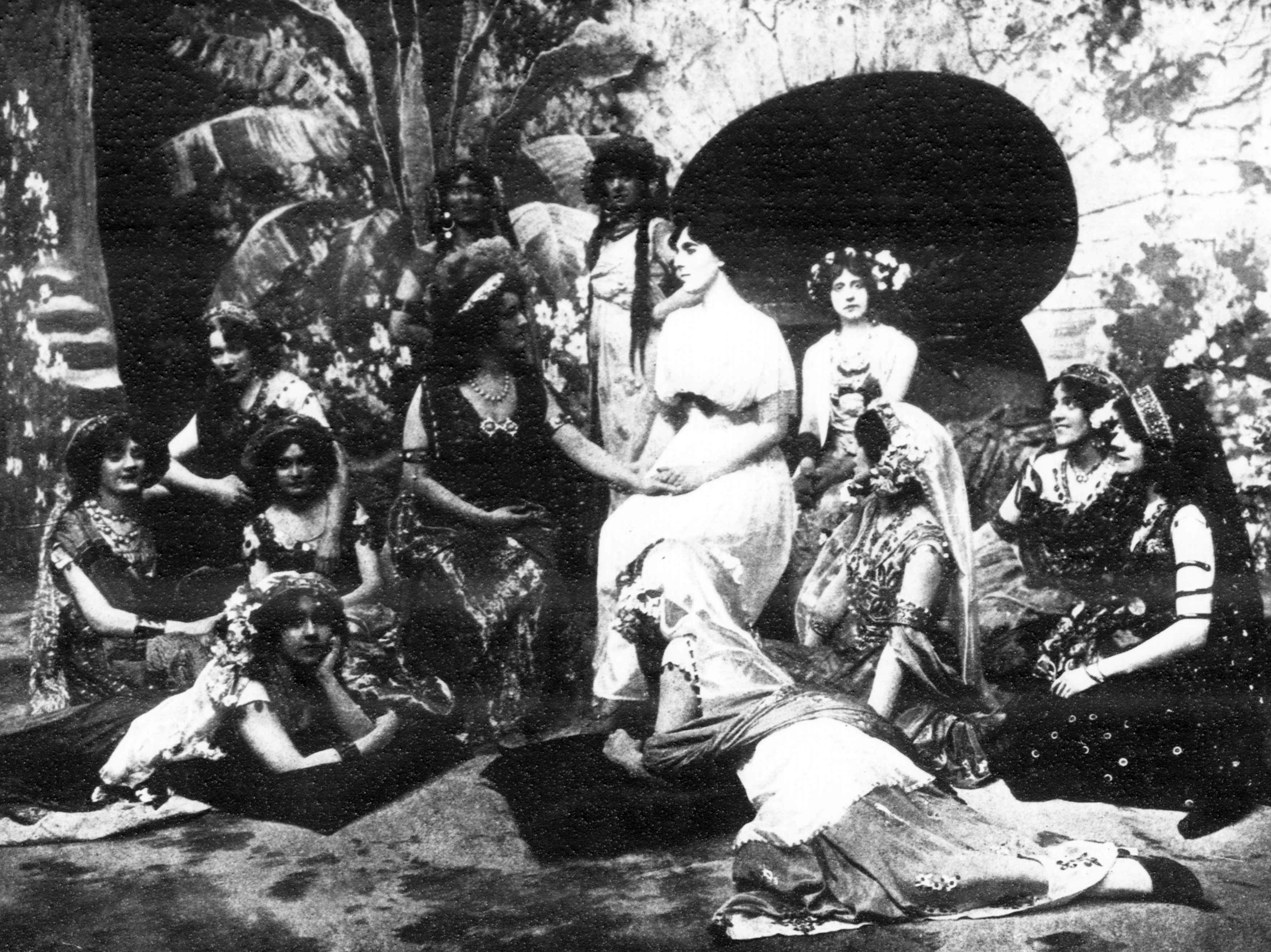 Scene from The Islander, by Philip Michael Faraday